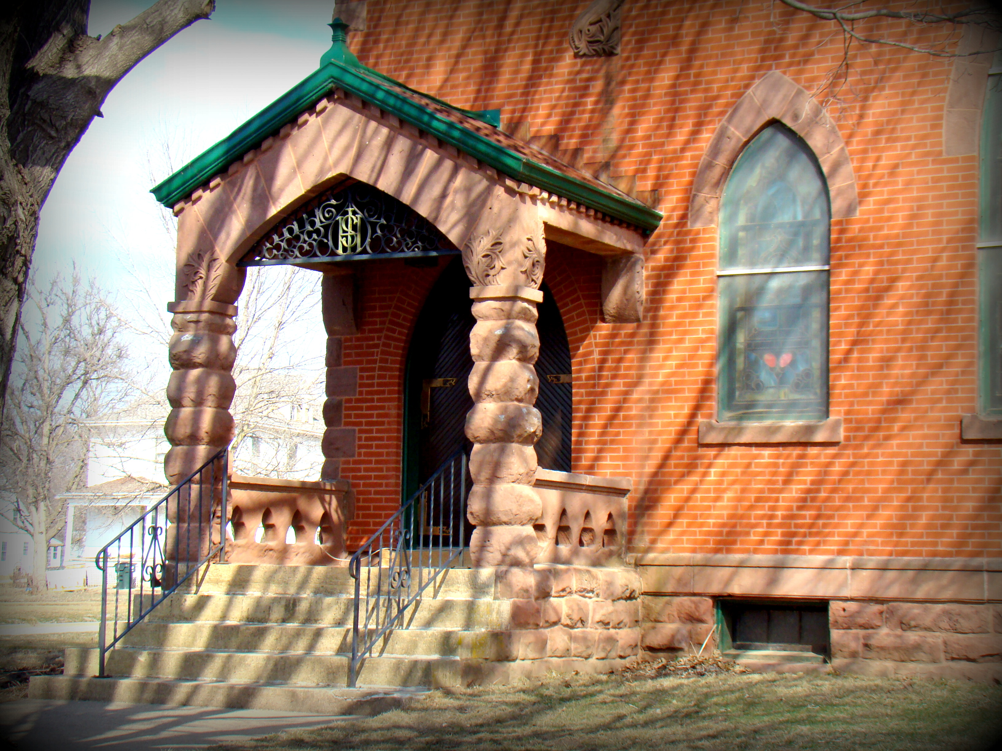 Trinity Memorial Episcopal Church (Mapleton, Iowa)